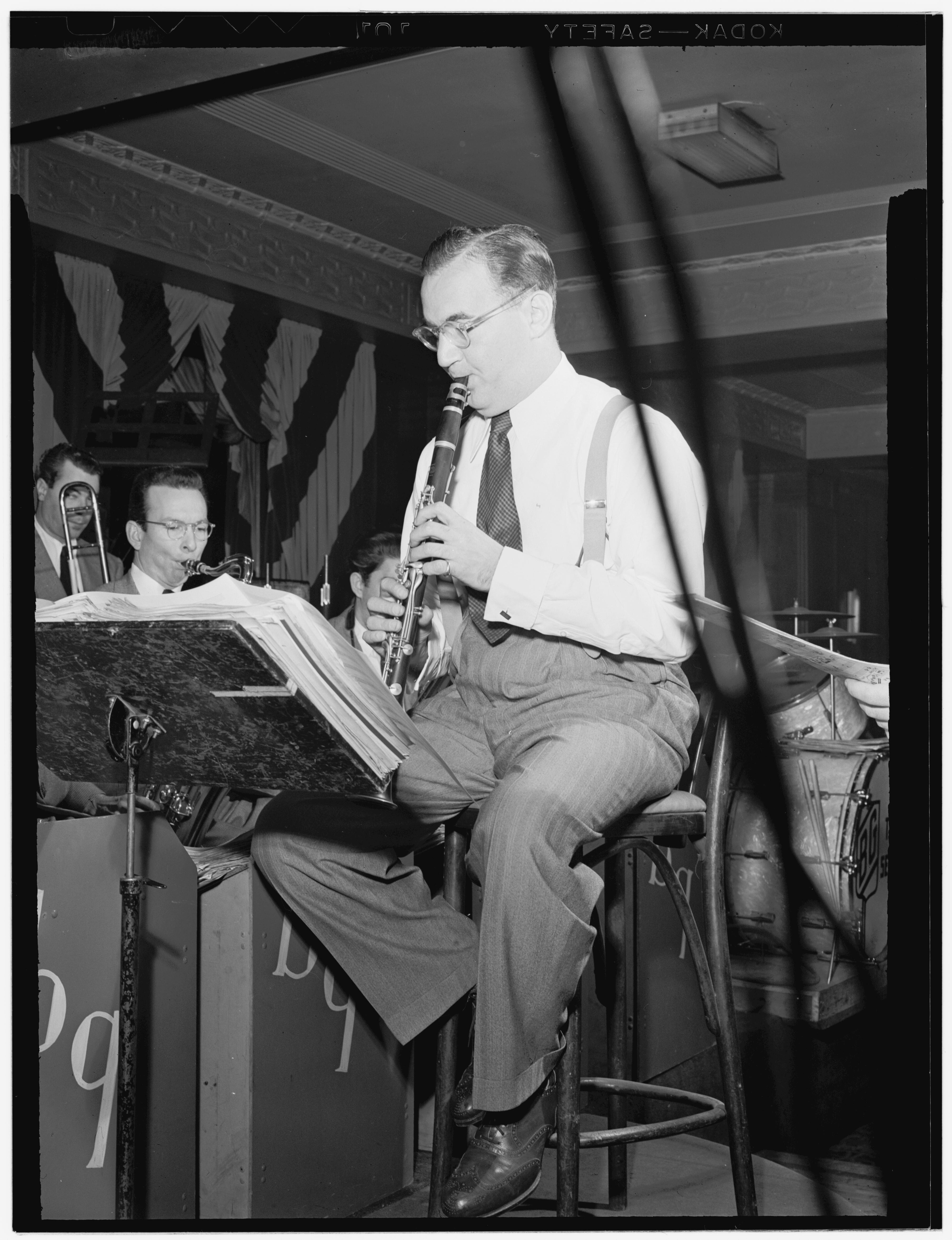 Gottlieb, William P., 1917-, photographer. [Portrait of Benny Goodman, 400 Restaurant, New York, N.Y., ca. July 1946] 1 negative : b&w ; 3 1/4 x 4 1/4 in. Caption from Down Beat: Benny Goodman (400). The King of Swing is sitting high. After a long period of relative inactivity, he's back in the swing with a very musicianly crew. Notes: Gottlieb Collection Assignment No. 532 Reference print available in Music Division, Library of Congress. Purchase William P. Gottlieb Forms part of: William P. Gottlieb Collection (Library of Congress). In: The Record Changer, v. 5, no. 5 (July 46, 1946), p. 9. Subjects: Goodman, Benny, 1909- Jazz musicians--1940-1950. Clarinetists--1940-1950. Composers--1940-1950. 400 Restaurant Format: Portrait photographs--1940-1950. Group portraits--1940-1950. Film negatives--1940-1950. Rights Info: Mr. Gottlieb has dedicated these works to the public domain, but rights of privacy and publicity may apply. Repository: (negative) Library of Congress, Prints & Photographs Division, Washington D.C. 20540 USA, (reference print) Library of Congress, Music Division, Washington D.C. 20540 USA, Part Of: William P. Gottlieb Collection (DLC) 99-401005 General information about the Gottlieb Collection is available at Persistent URL: Call Number: LC-GLB13- 0343 This work is from the William P. Gottlieb collection at the Library of Congress. Rights and restrictions.In accordance with the wishes of William Gottlieb, the photographs in this collection entered into the public domain on February 16, 2010.